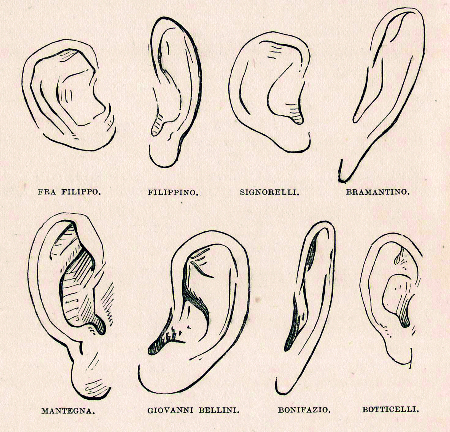 Illustration from Italian Painters.